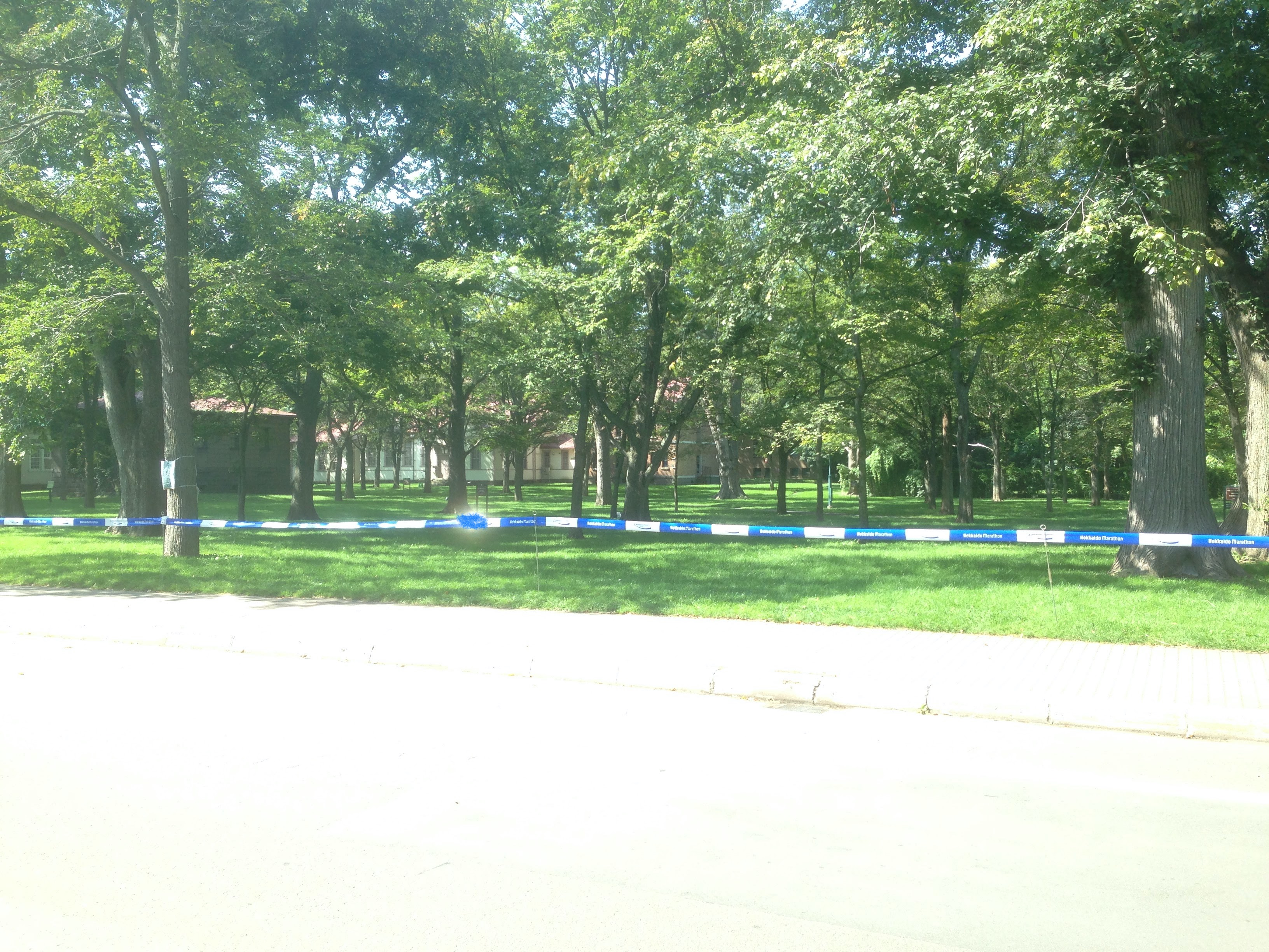 This is the marathon course for the 2020 Tokyo Olympics.